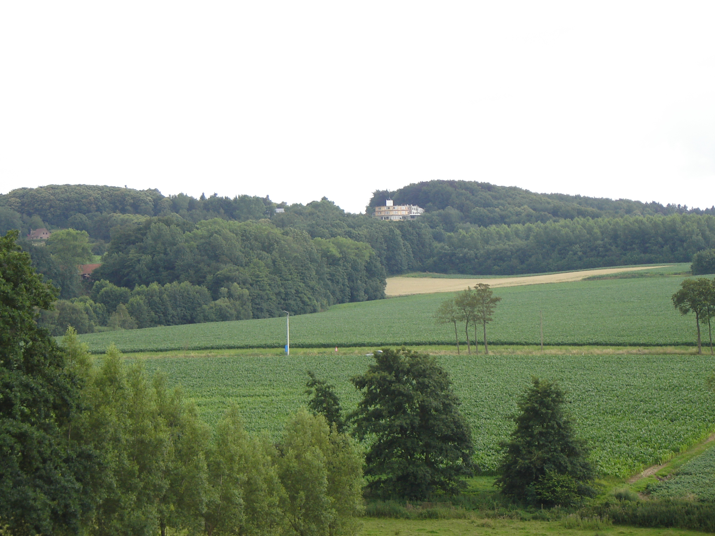 Rodeberg hill in Westouter, Heuvelland, West Flanders, Belgium.